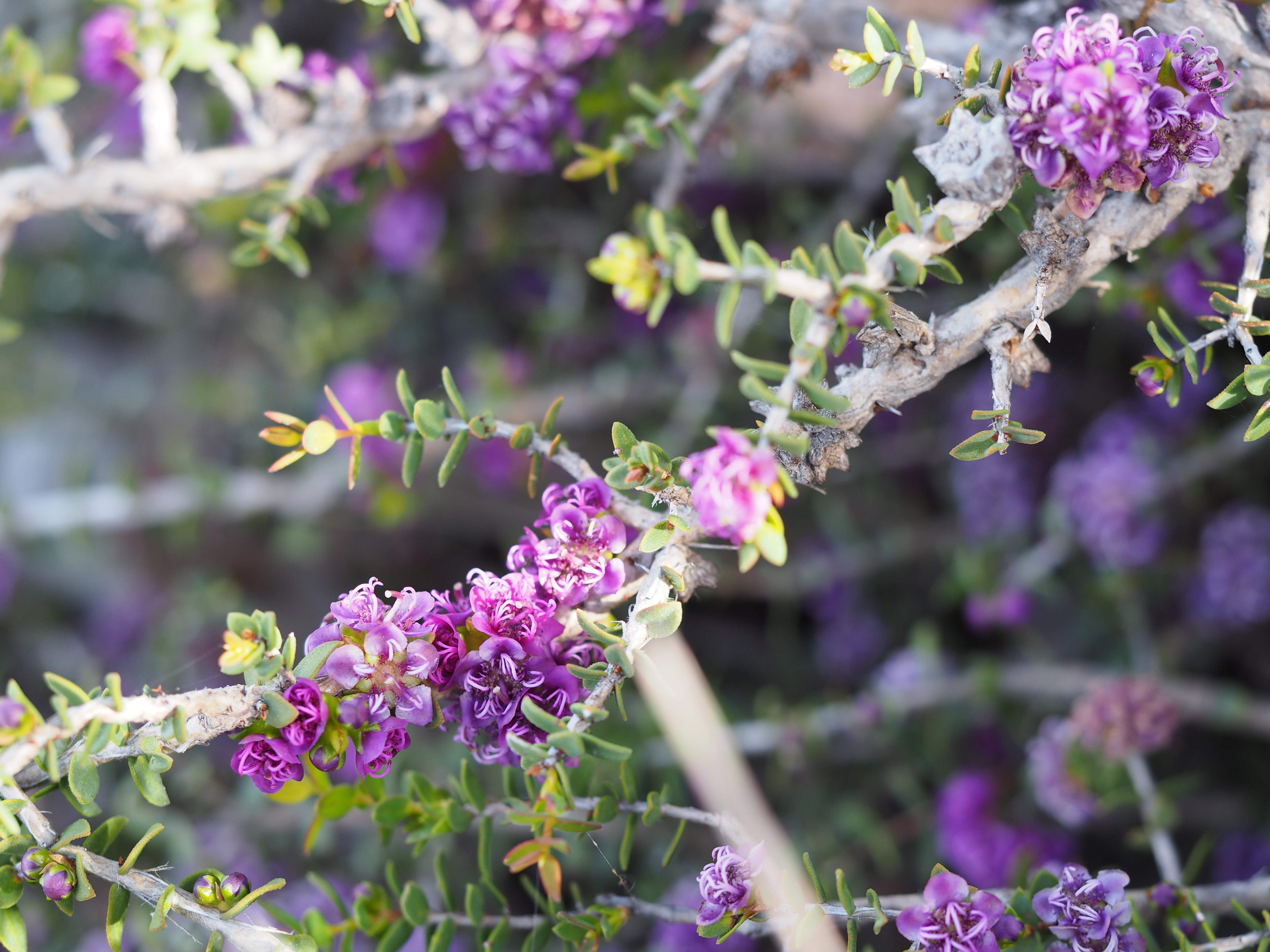 Melaleuca violacea growing at Cape Riche